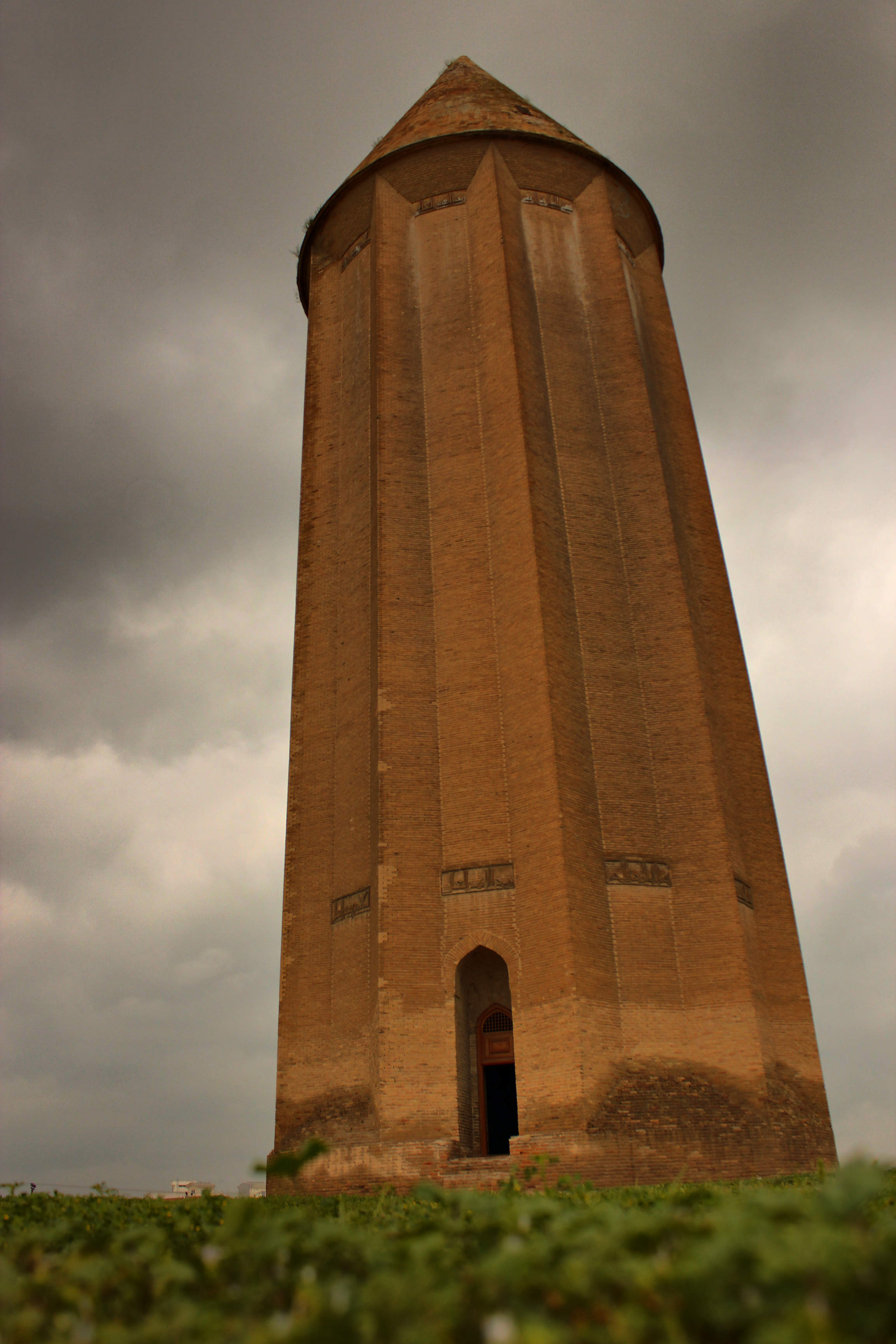 Gonbad Kavoos , the Tomb of Kavoos